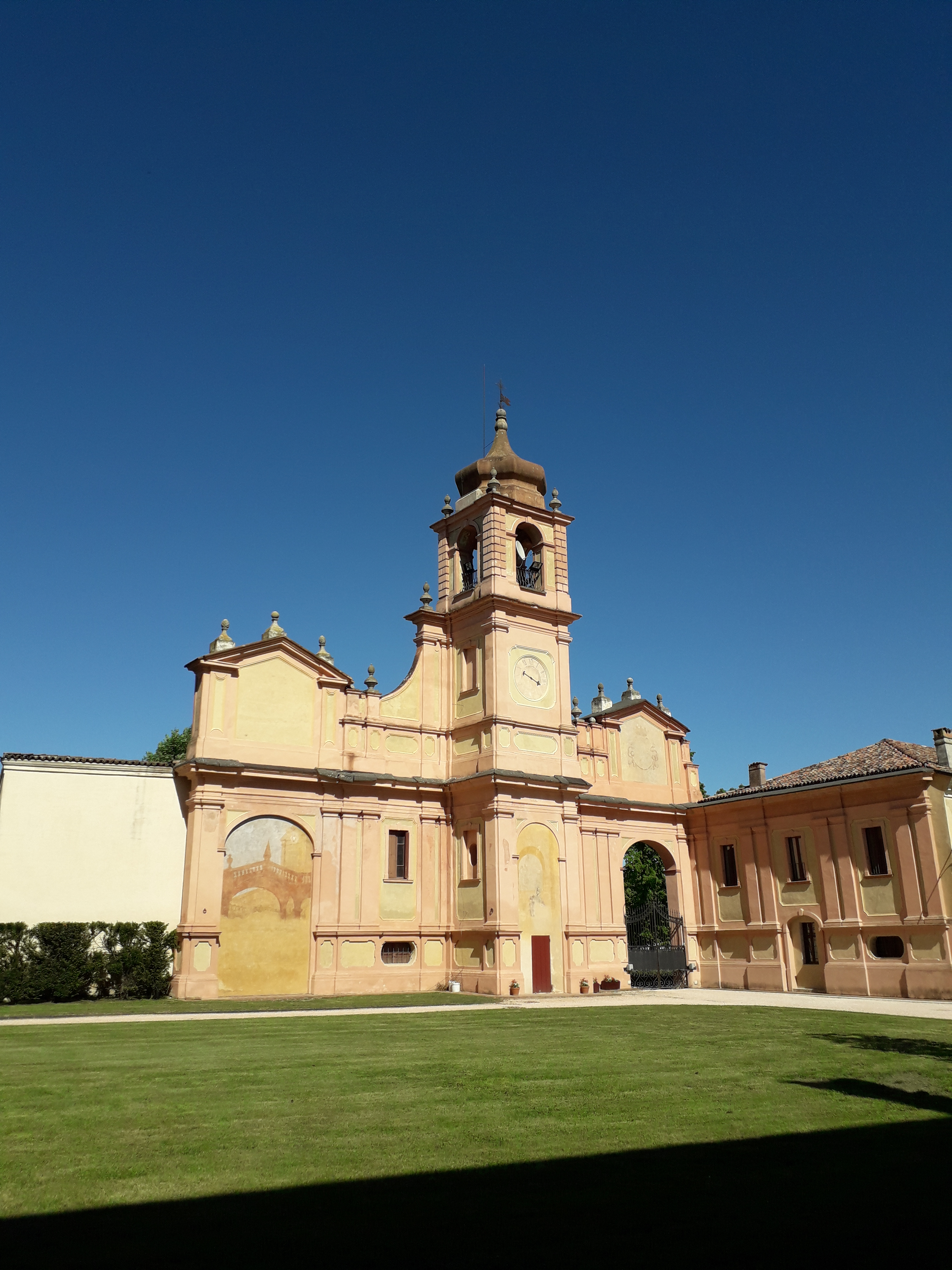 the photo shows the entrance of 16th-century Villa Maraini Guerrieri located in Palidano (Mantua)